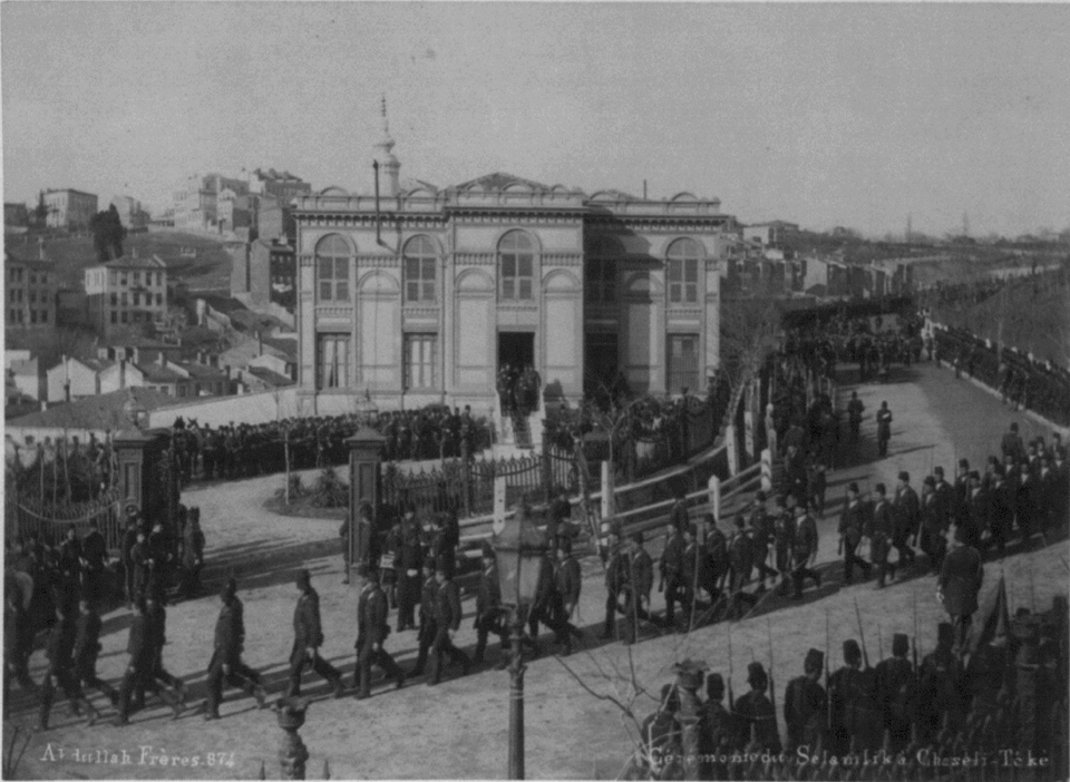 The Selamlik (Sultan's procession to the mosque) at the Sazli Dervish Lodge on Friday